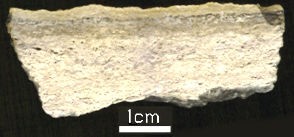 Etched section of paleosol from "the Gulf", San Salvador Island, Bahamas, indicating the top of the Pleistocene Grotto Beach Formation (limestone). Collected 1999. Scale bar is 1 cm.